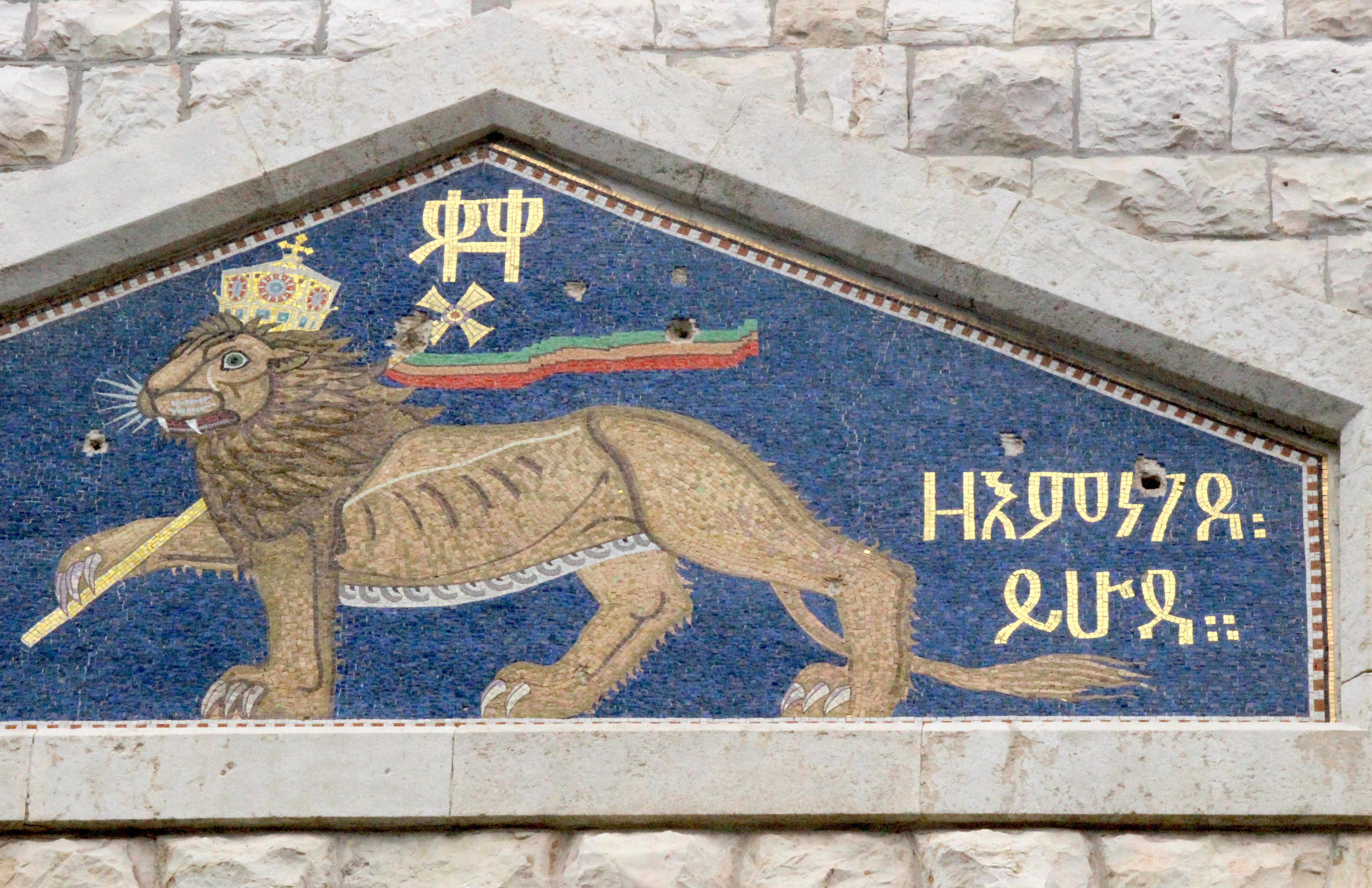 Jerusalem is also known as "Ariel" (Lion of God) and belongs to the tribe of Judah that his symbol is the lion. The lion is a constant symbol in Jerusalem. In photography, emblem of the ethiopian monarchy with inscription in geez: "The Lion of the tribe of judah has triumphed". Photographic Collection Jerusalem Lions.